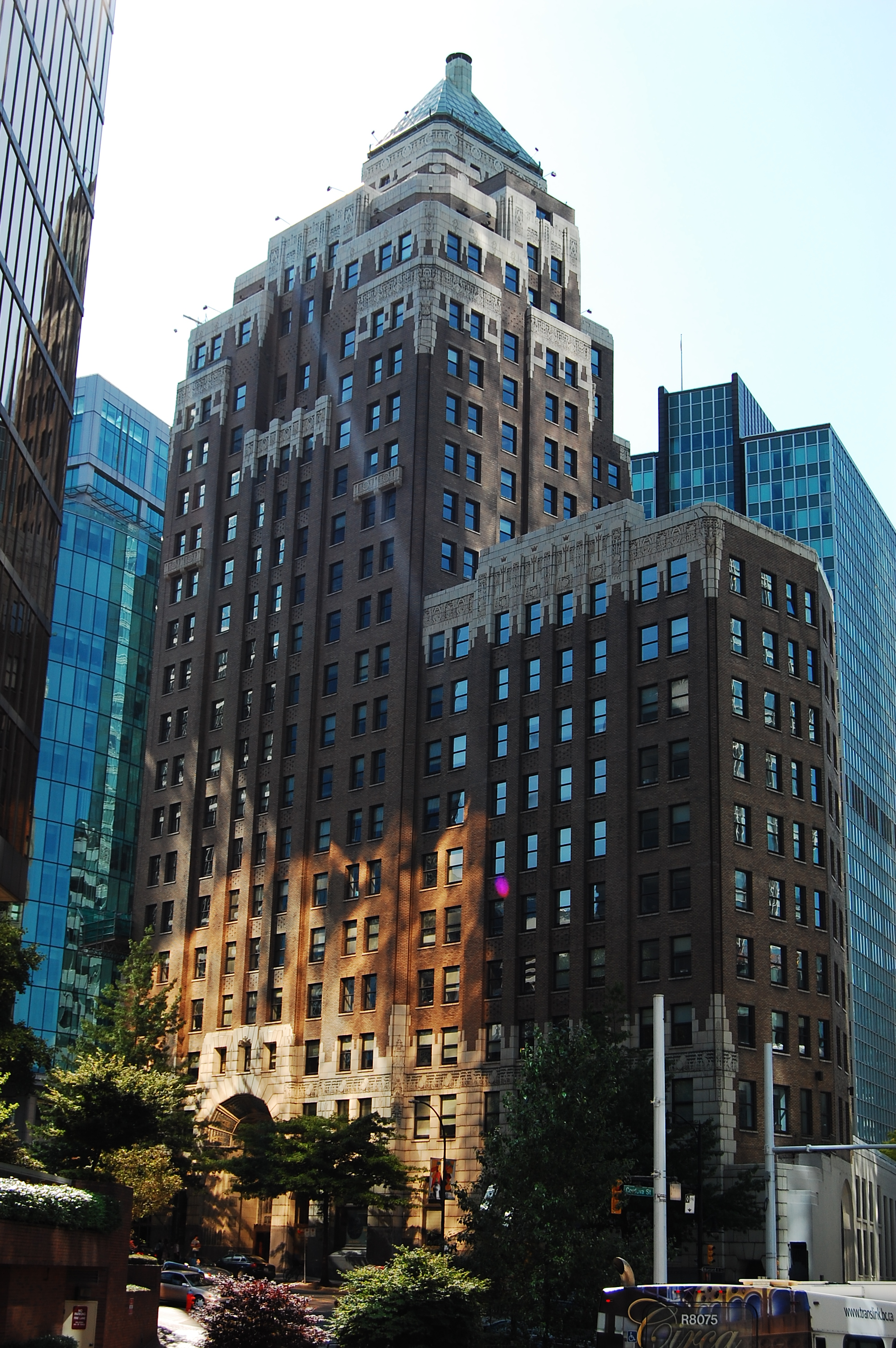 Marine Building, Vancouver